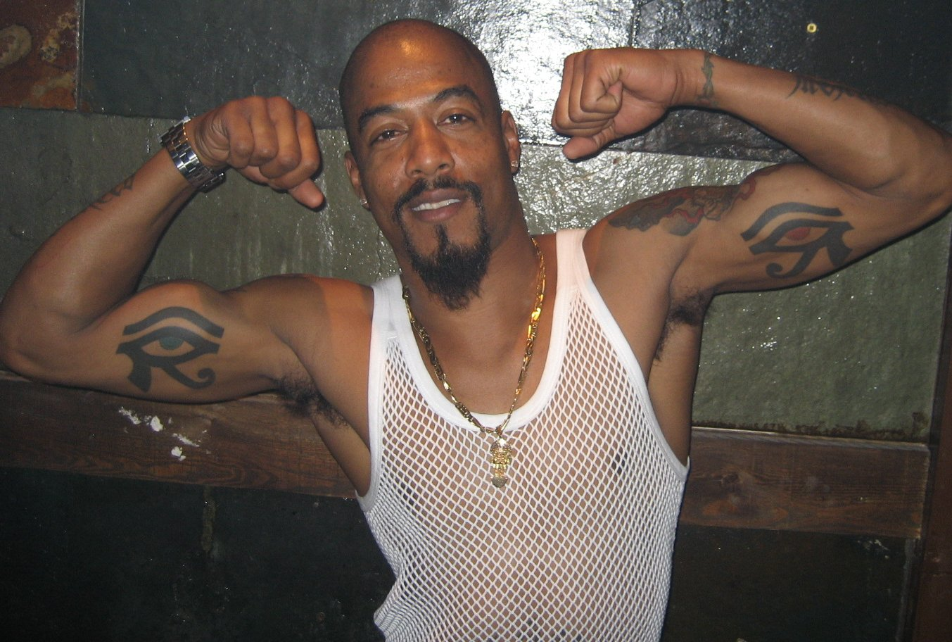 Afu-Ra is a Hip hop artist. Picture was taken in Madrid.